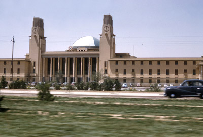 Baghdad Train Station in the 1950s